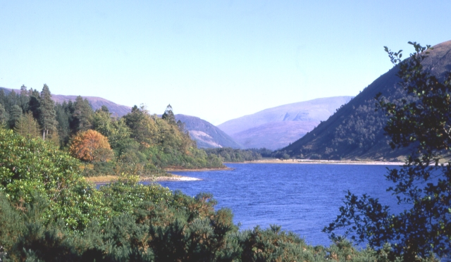 Loch Dùghaill in Strathcarron, Highland. Not to be confused with the loch of the same name in Glen Shieldaig.